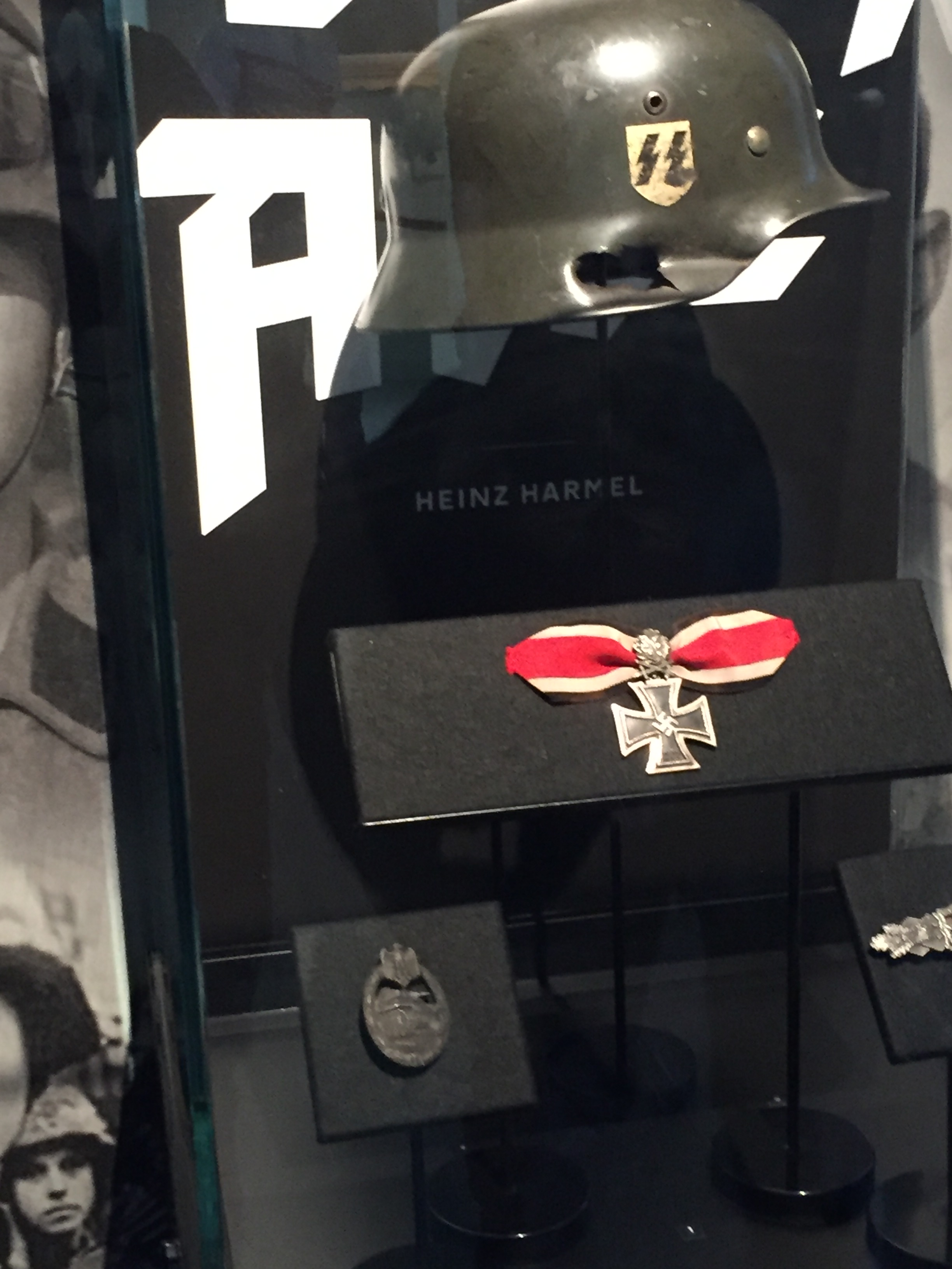 The helmet and a number of personal belonings are exhibited in the Airborne Museum in Oosterbeek, The Netherlands.